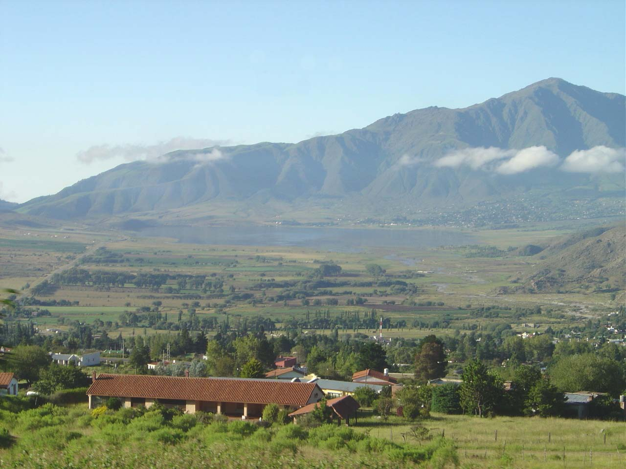 author: jlazarte (own work) caption: view of Tafi del Valle, Tucumán, Argentina